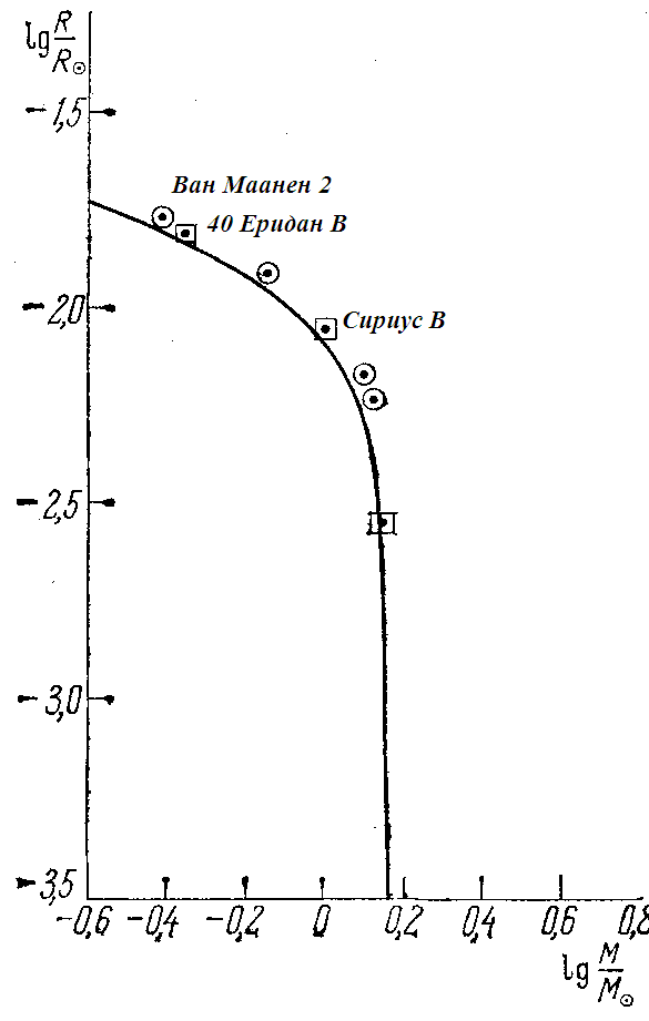 Diagram mass-luminosity for white dwarves (editted in Bulgarian)